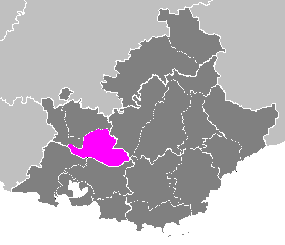 Maps of arrondissements and cantons of France: Arrondissement d Apt.PNG